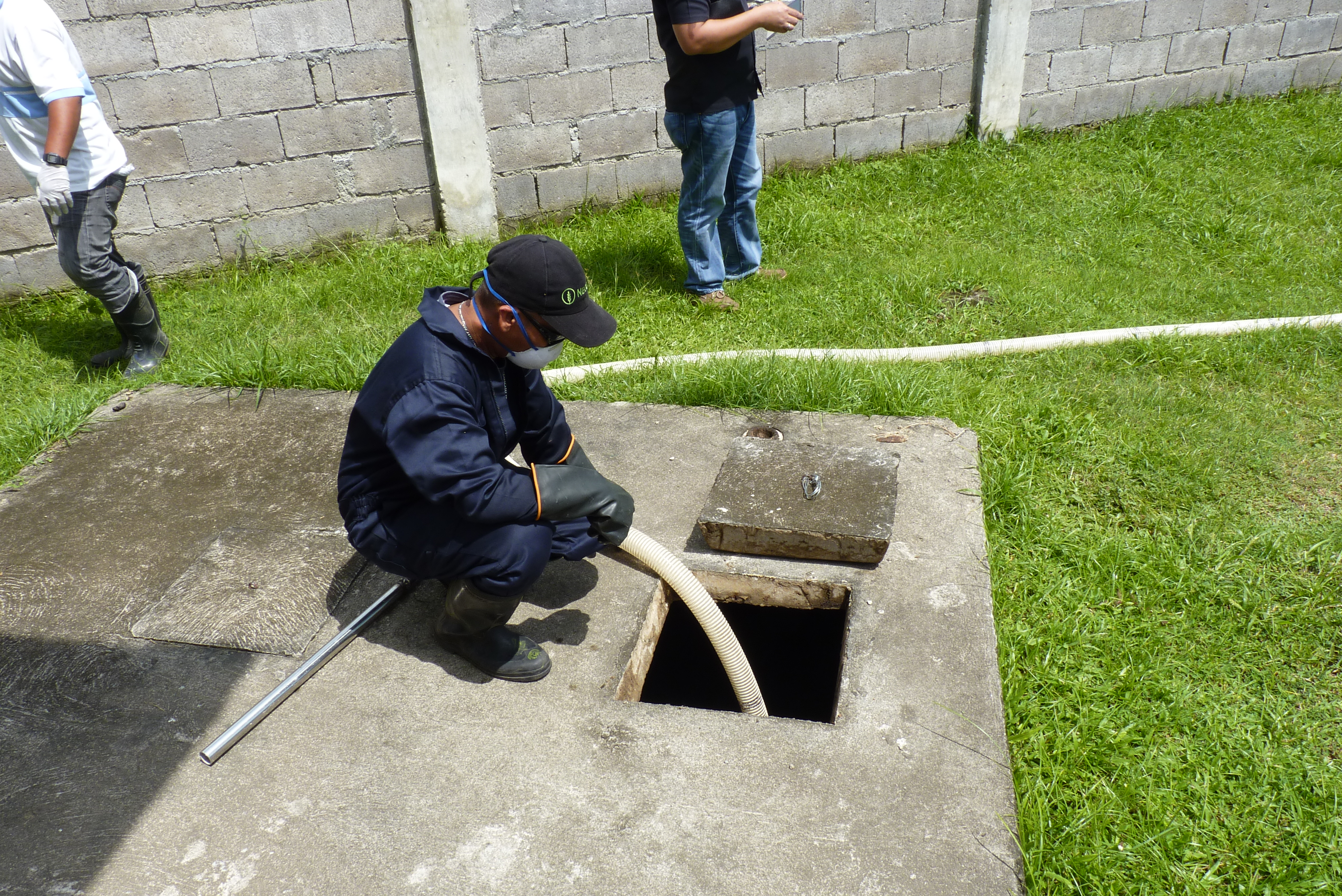 Desluding using proper PPE. Dumaguete Philippines